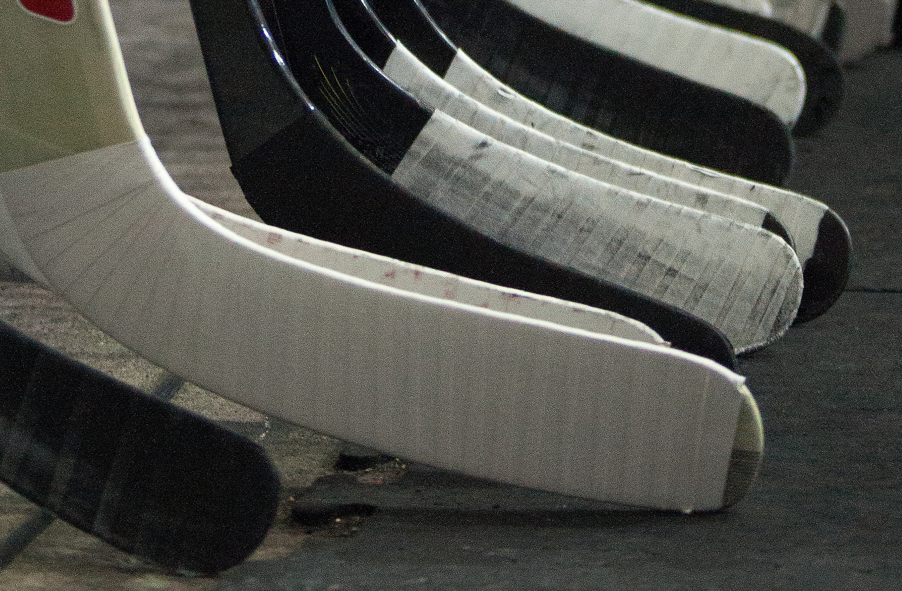 Ice hockey sticks showing hockey tape.